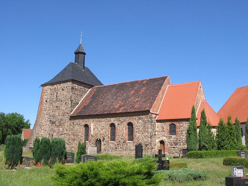 Stone church Bergholz with a stonespire in the whole broadness of the nave, built around 1200. The village Bergholz is an incorporated part of Belzig, the central town of the district Potsdam-Mittelmark in the state Brandenburg of Germany. Belzig appertains to the natural preserve Naturpark Hoher Fläming.